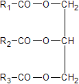 Chemical structure made by me.